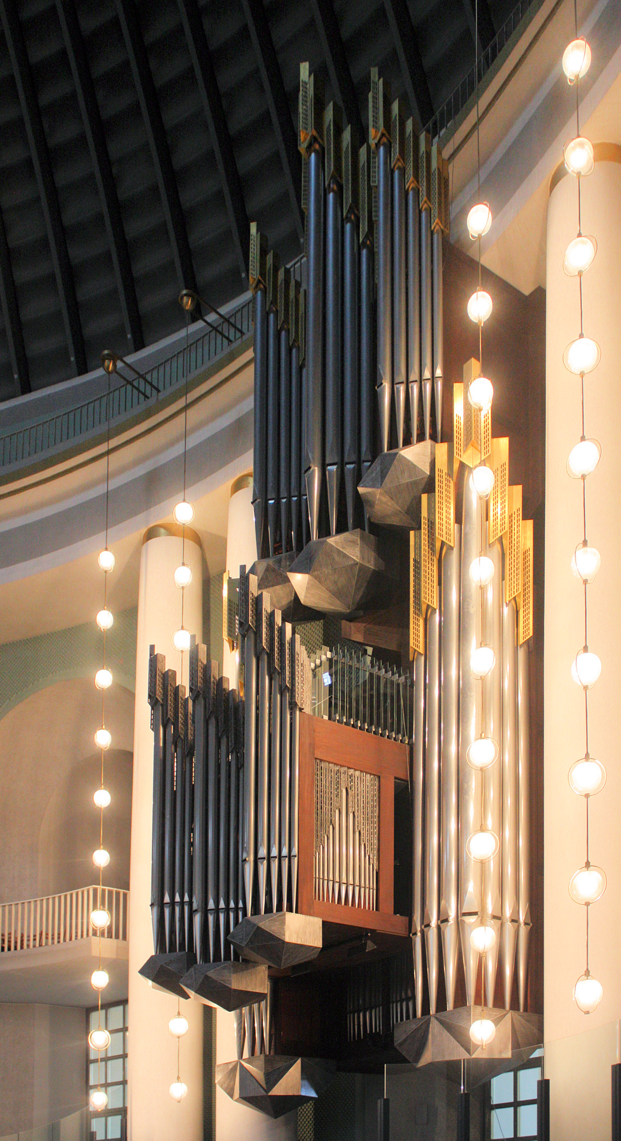 Berlin-Mitte, St. Hedwig's Cathedral, the great organ